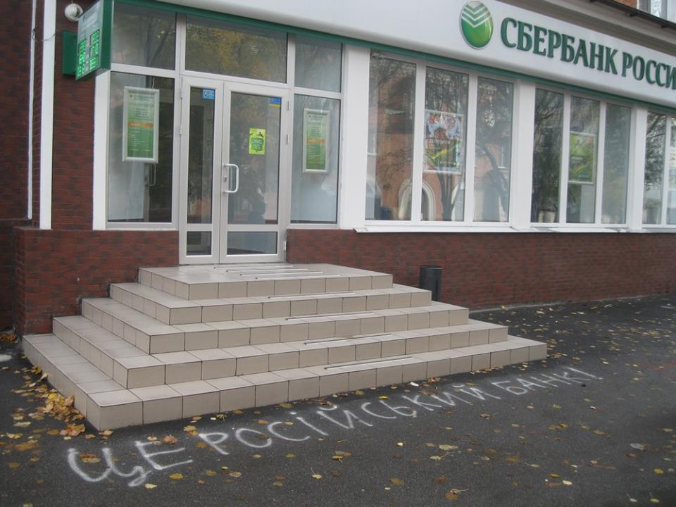 Graffiti in Ukrainian "It is Russian bank" near the entrance to the department of «Sberbank of Russia" in Oleksandriia, Ukraine.